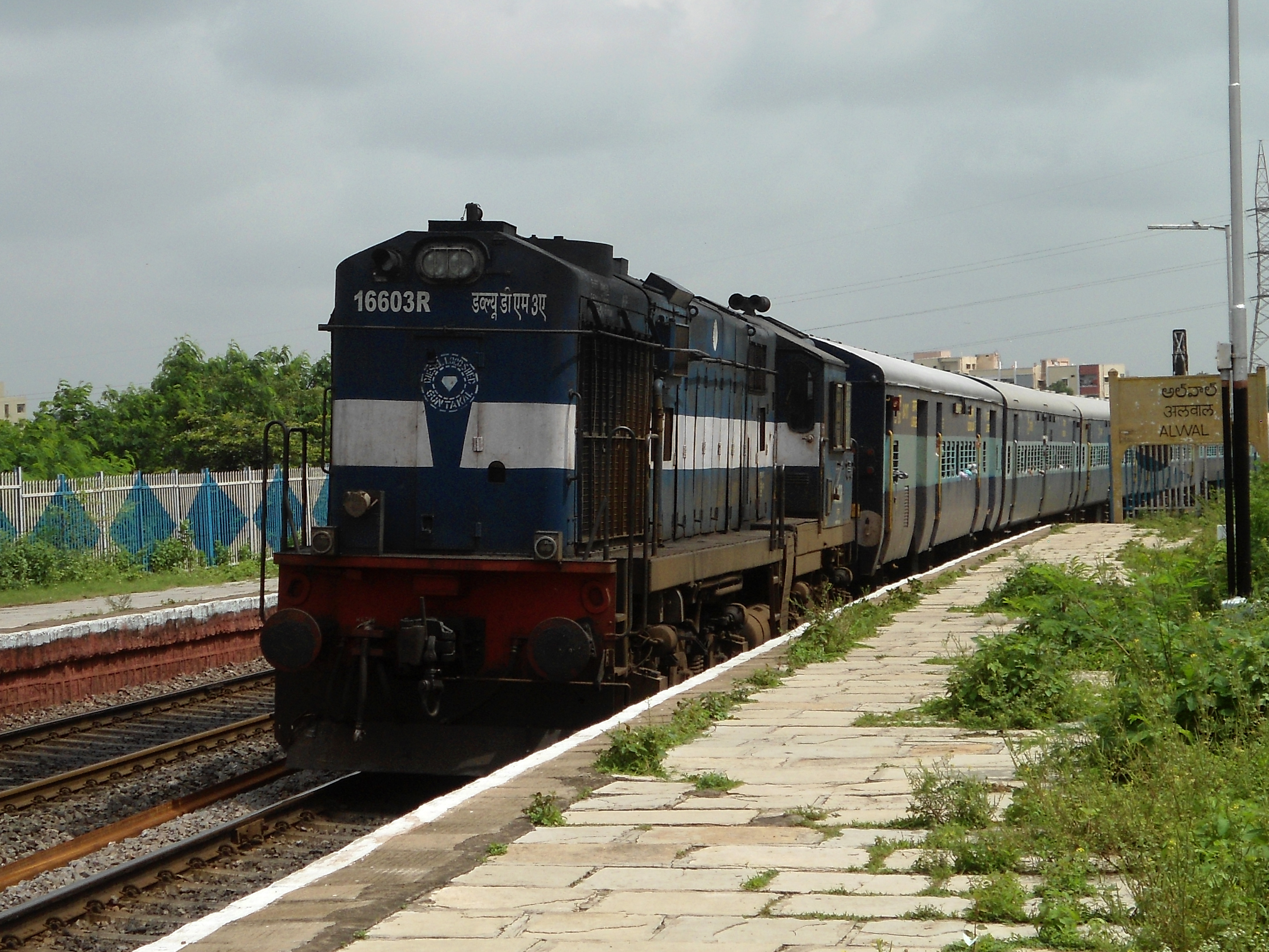 Bodhan-MBNR Passenger with WDM3A loco of GTL shed at Alwal Railway station, Hyderabad Loco road number: #16603 Loco class: WDM3A Specialised in: Passenger traffic Loco shed: Guntakal (GTL)